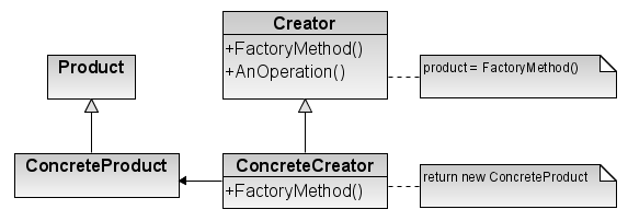 The Factory Method design pattern illustration, UML diagram.